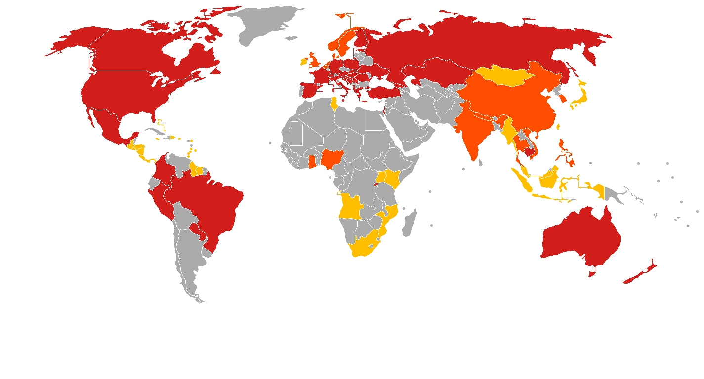 Map showing countries with Top Model, based on Image:BlankMap-World-v5.png, which is licensed under GFDL. Location of Top Model versions: Country with own version of show Country part of an international version of show County with both own versoion and part of an international version of show